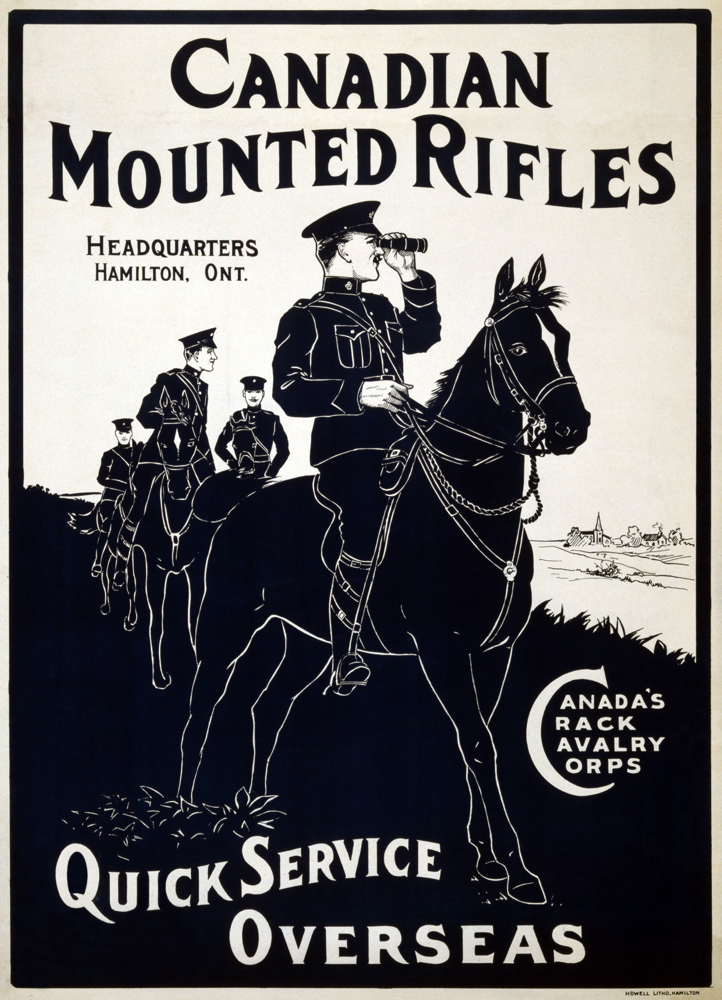 A World War I recruitment poster depicting the Canadian Mounted Rifles.